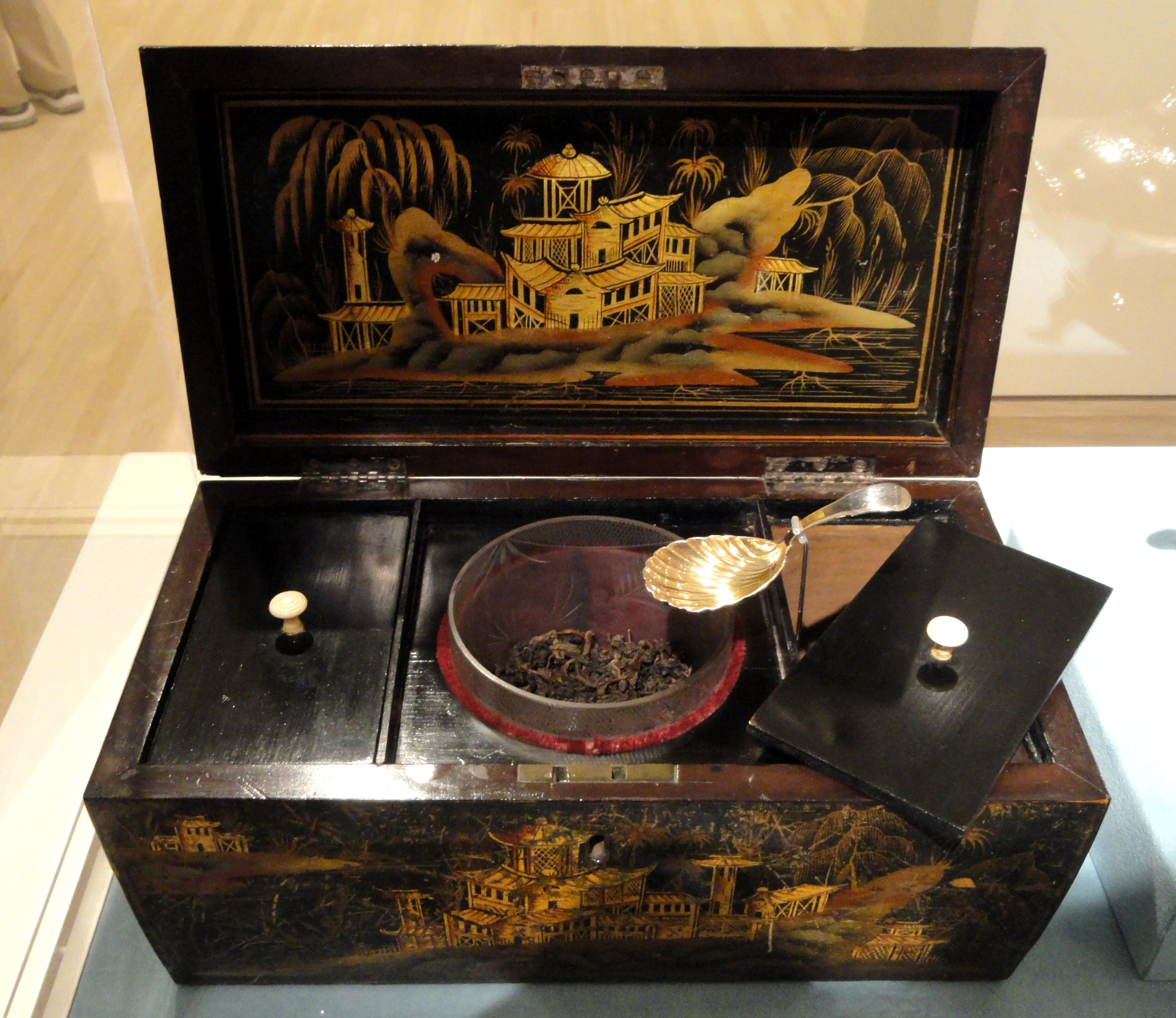 Tea caddy, Chinese, circa 1780, with caddy spoon by silversmith Elizabeth Morley, 1805. Exhibit in the Indianapolis Museum of Art, Indianapolis, Indiana, USA.